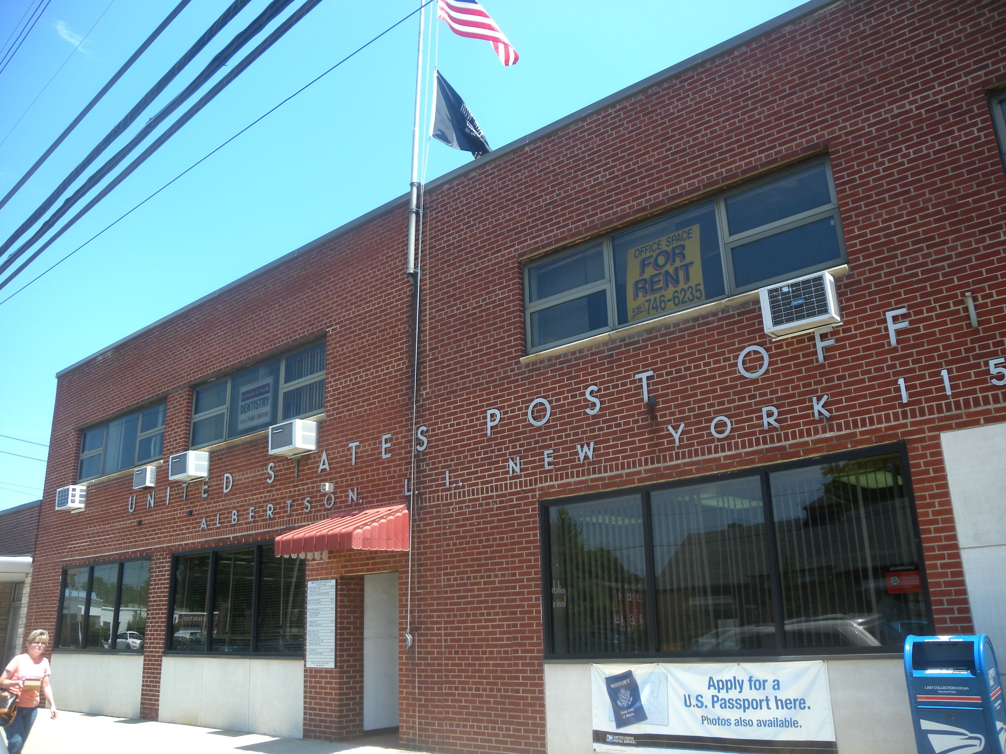 Looking northeast at post office on a sunny midday.